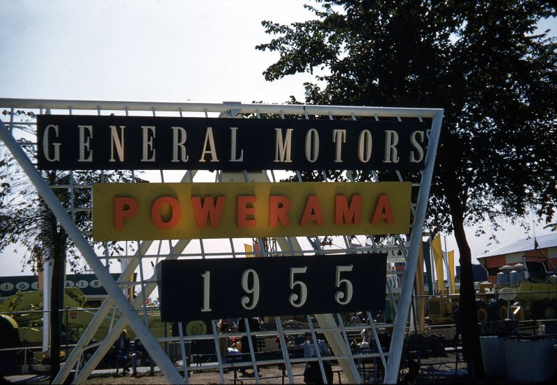 Sign for the General Motors "Powerama" 1955 show